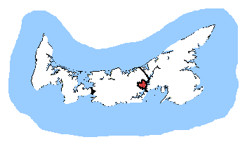 Map of the Charlottetown electoral district. Based on Earl Andrew's maps, created by SimonP.